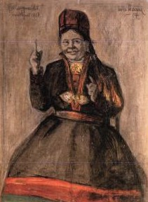 Unidentified sami woman painted by Astri Aasen (1875-1935) during the first Sami congress in Trondheim 1917